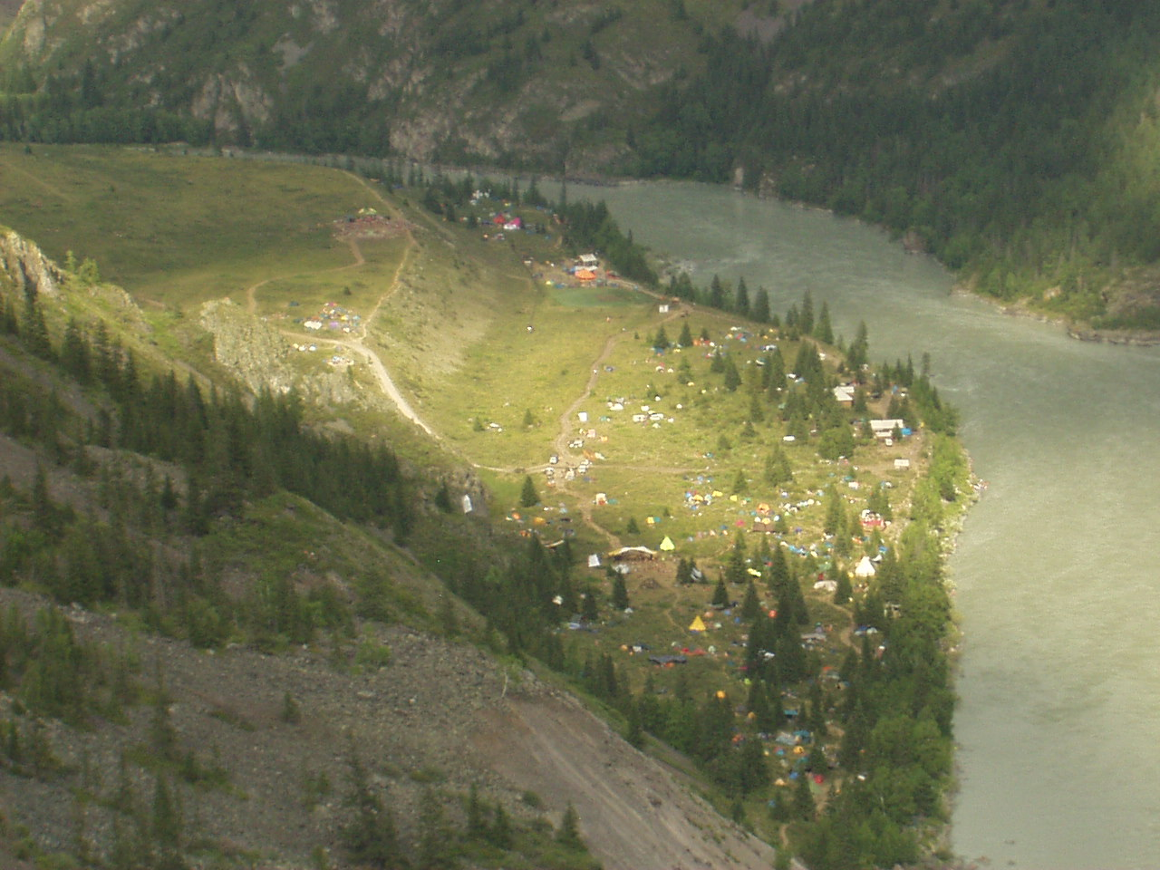 Katun' river valley at the point of junctions with Ursul and Big Sumulta rivers, Ongudai District, Altay Republic. The tent structures are the psytrance festival Khan-Altay dedicated to 100% solar eclipse watched from here.